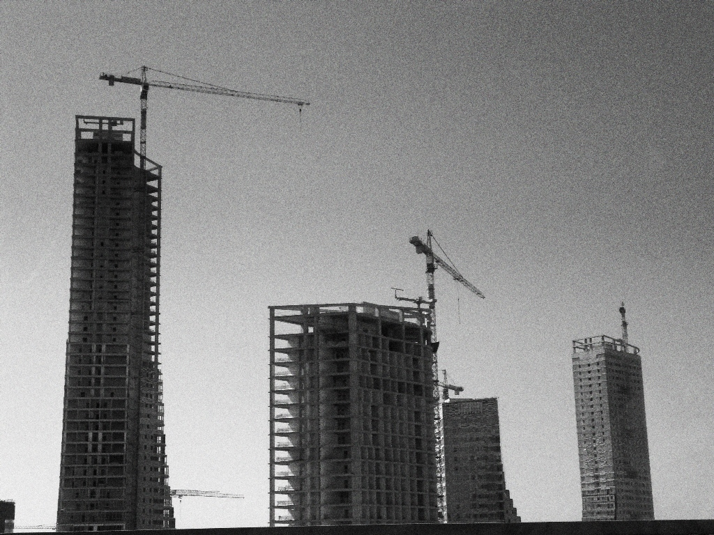 Ascending new buildings in AtaşehirTürkçe: Ataşehir'de yükselen yeni binalar